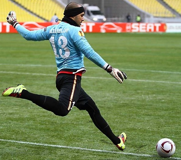 FC Twente in UEFA Europa League round of 32 match against FC Rubin Kazan